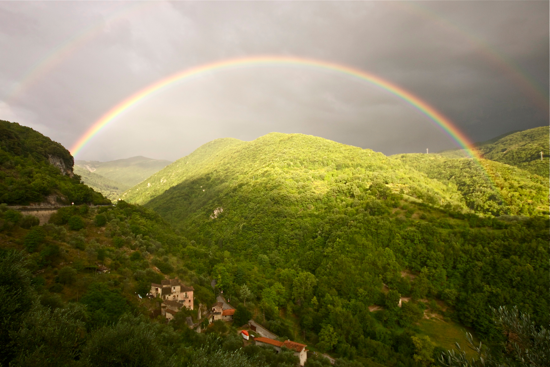 Antrodoco - province of Rieti, Lazio, Italy